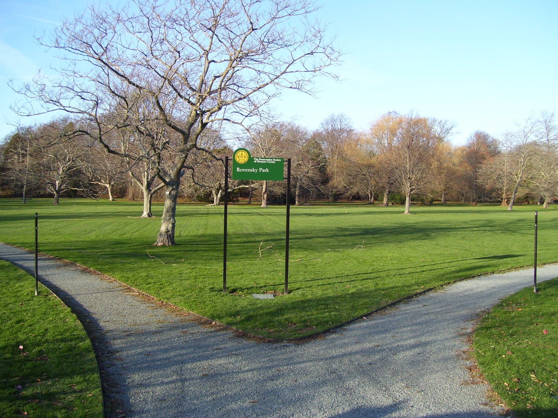 This is my 2008 photo of Rovensky Park in Newport, Rhode Island.